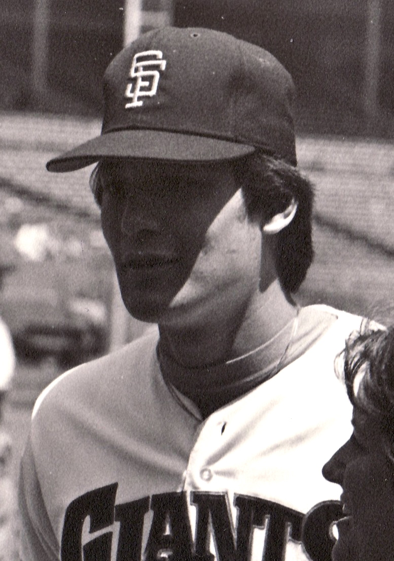 camera day at Candlestick Park Giants pitcher Atlee Hammaker poses with two adoring fans